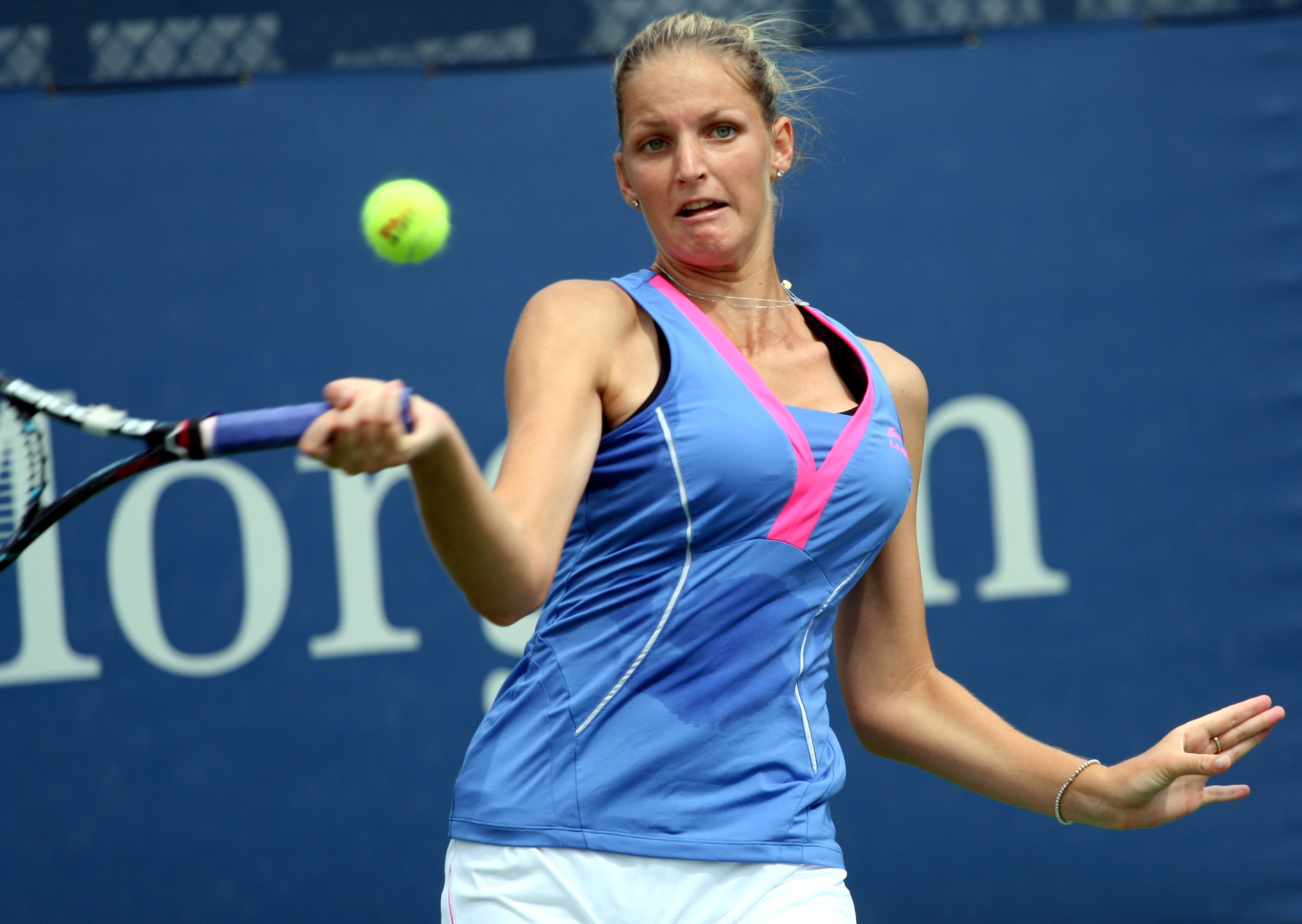 Friday, August 30